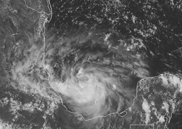 Tropical Depression Thirteen, nearly stationary in the Bay of Campeche on September 26. This visible light image was captured by the GOES-East satellite at 2015 UTC.